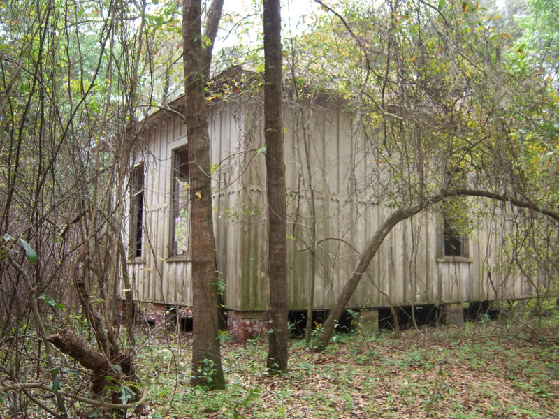 Built in 1885 for the Suwannee Sulphur Springs Resort. Eighteen cottage were built to accommodate the guest of the near-by Suwannee springs. Six of the original cabin remain. Two are owned by Suwannee River Water Management (one is pictured), these two are in poor condition, and not been protected by the State Agency.